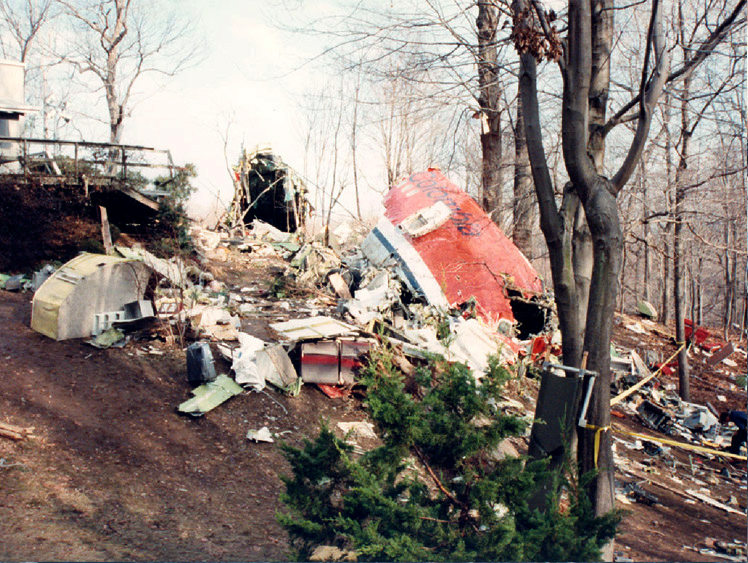 A picture of the cockpit of Avianca Flight 52 with a nearby property and the rest of the fuselage in the background